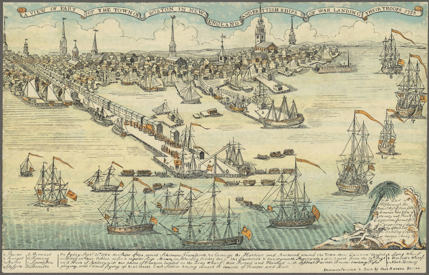 A view of the Town of Boston in New England and British ships of war landing their troops, 1768